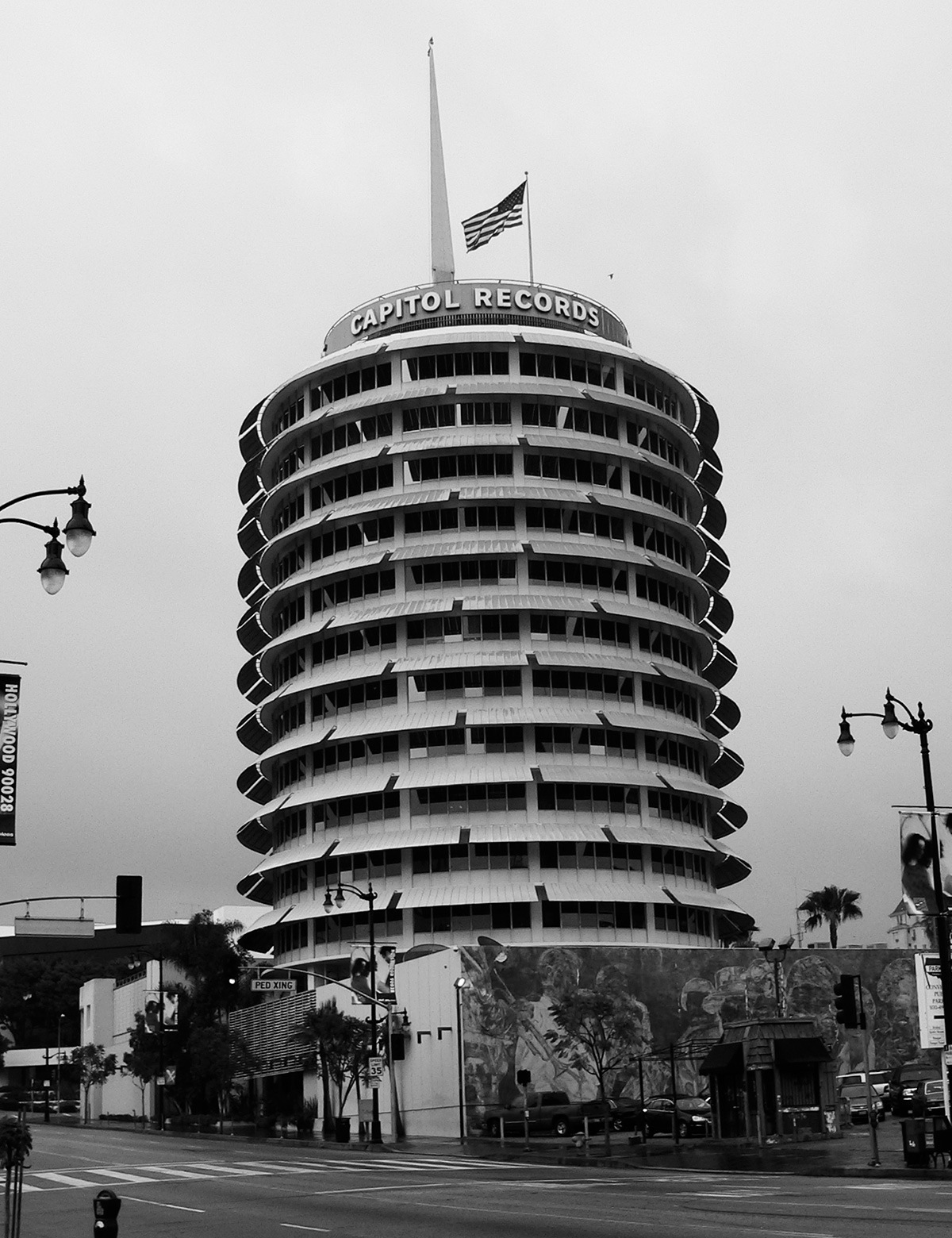 Capitol Records building photographed in black and white on an overcast day.